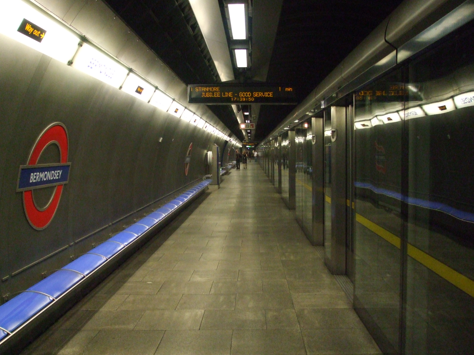 Bermondsey tube station westbound platform looking east. Note platform edge doors.